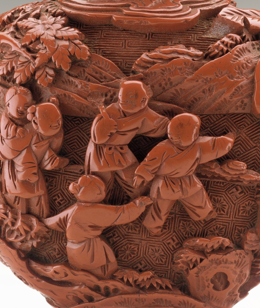 China, middle Qing dynasty, about 1700-1800 Tools and Equipment; bottles Carved red lacquer on metal core, with metal stopper inset with lapus lazuli and glass Gift of Carl Holmes (M.71.100.10a-b) Chinese Art